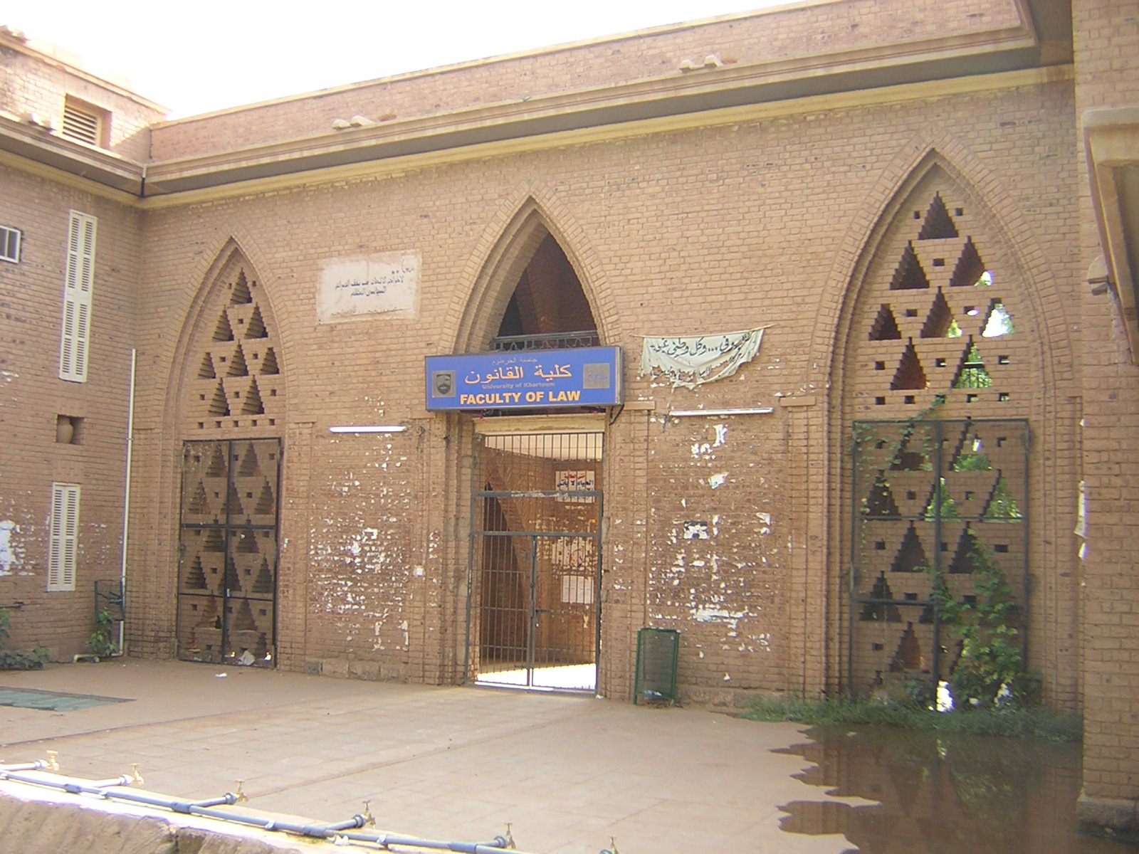 Gates and courtyard at Faculty of Law, of the University of Khartoum, Khartoum, Sudan.